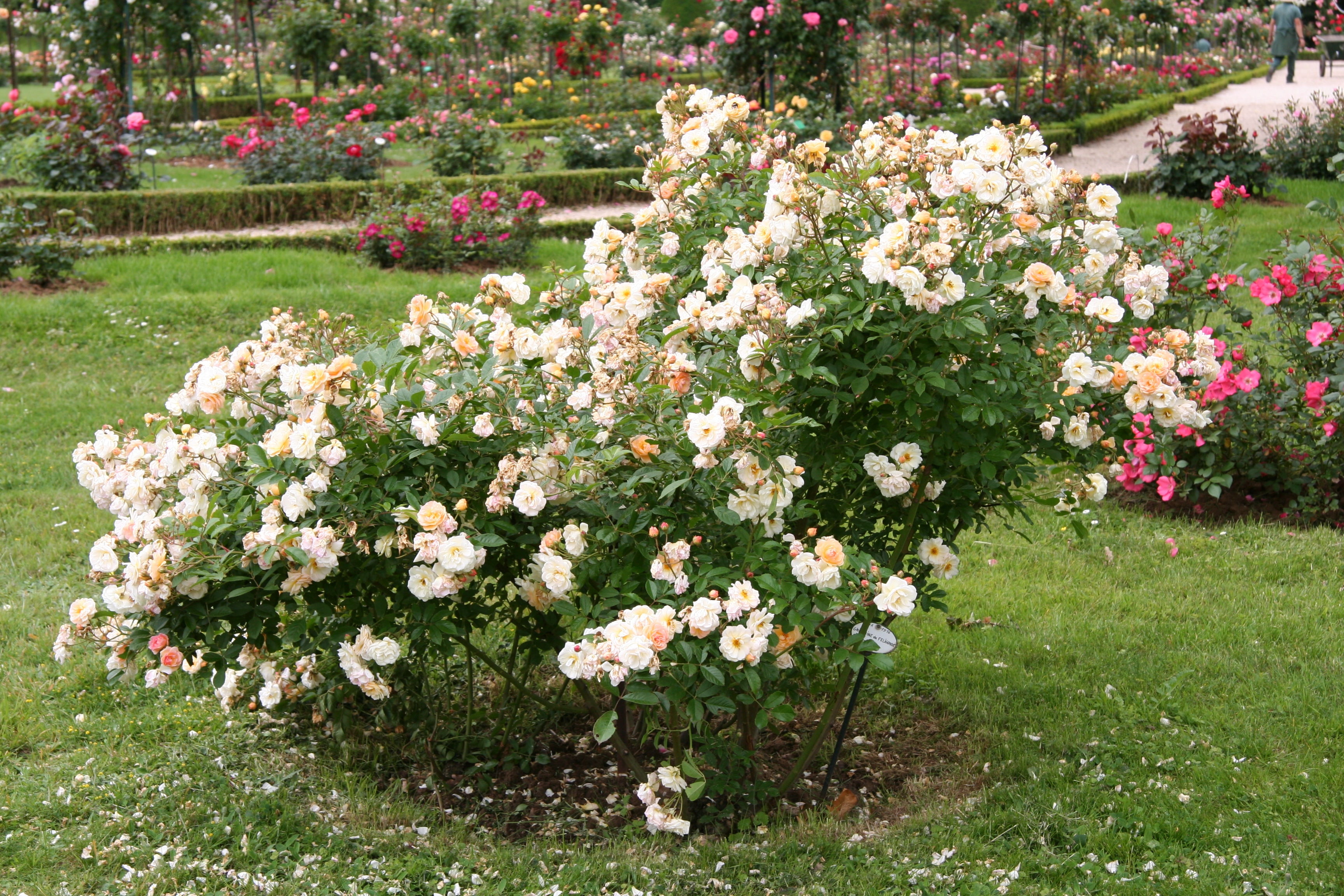 Ghislaine de Féligonde rose - Bagatelle Rose Garden (Paris, France).